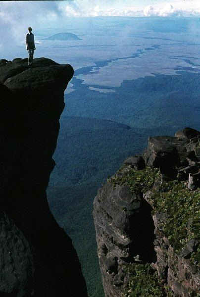 Scharlie Wraight and Stephen Platt on summit of Ilu Tepuy after first ascent 24 November 1981